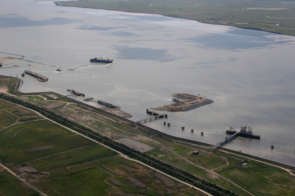 London Gateway Port, Thurrock, Great Britain. This photo shows part of the construction of the new 'London Gateway' port at Shell Haven. The existing jetties were from the now demolished Shell Haven Refinery. Sand is being pumped from the bottom of the Thames to create the new waterfront.